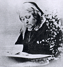 Portrait of Elizabeth Palmer Peabody